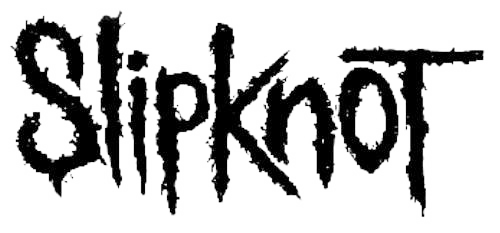 Slipknot logo